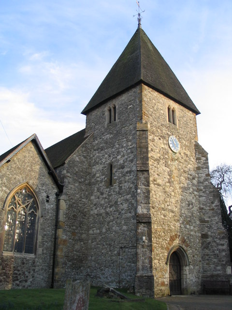 St. Mary's Church, Hadlow, built before 1588